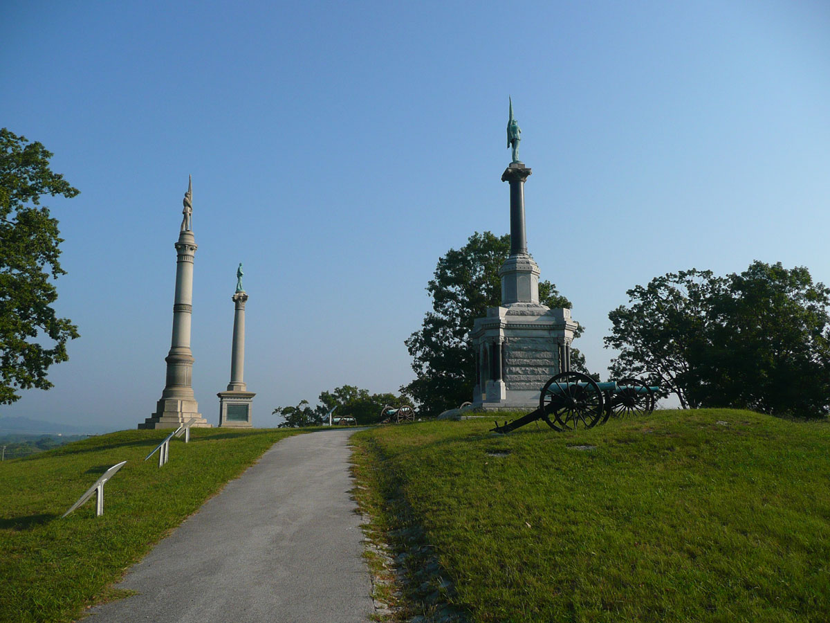 Photograph of Orchard Knob in Chattanooga.